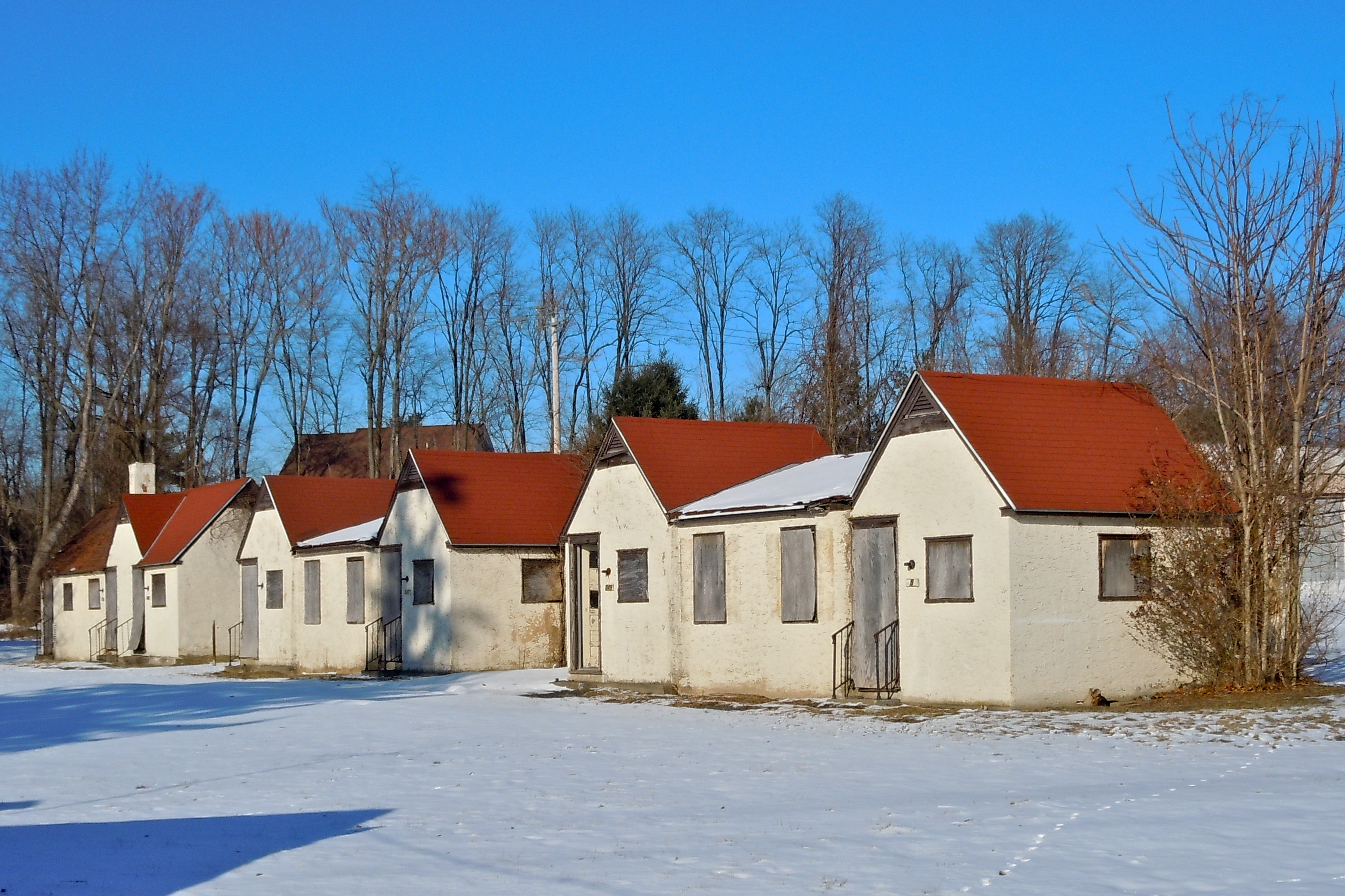 Williams Deluxe Cabins on the NRHP since July 28, 1988. On the Lincoln Highway (US 30), north side, between Ship Road and Pottstown Pike, in West Whiteland Township, Chester County, near Exton, PA. Old motel cabins, now boarded up. 20th century history in an area with lots of 18th-19th century history